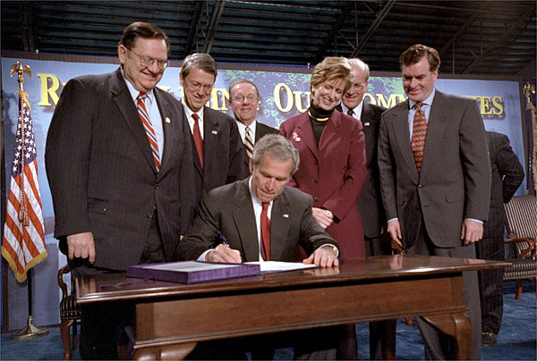 President George W. Bush signs the Small Business Liability Relief and Brownfields Revitalization Act in Conshohocken, Pennsylvania, Jan. 11. Standing left to right and Rep. Paul Gillmor of Ohio, Rep. Robert Borski of Penn., State Attorney General Mike Fisher, EPA Administrator Christie Todd Whitman, Rep. Joseph Hoeffel of Penn. and Pennsylvania Governor Mark Schweiker. White House photo by Eric Draper.